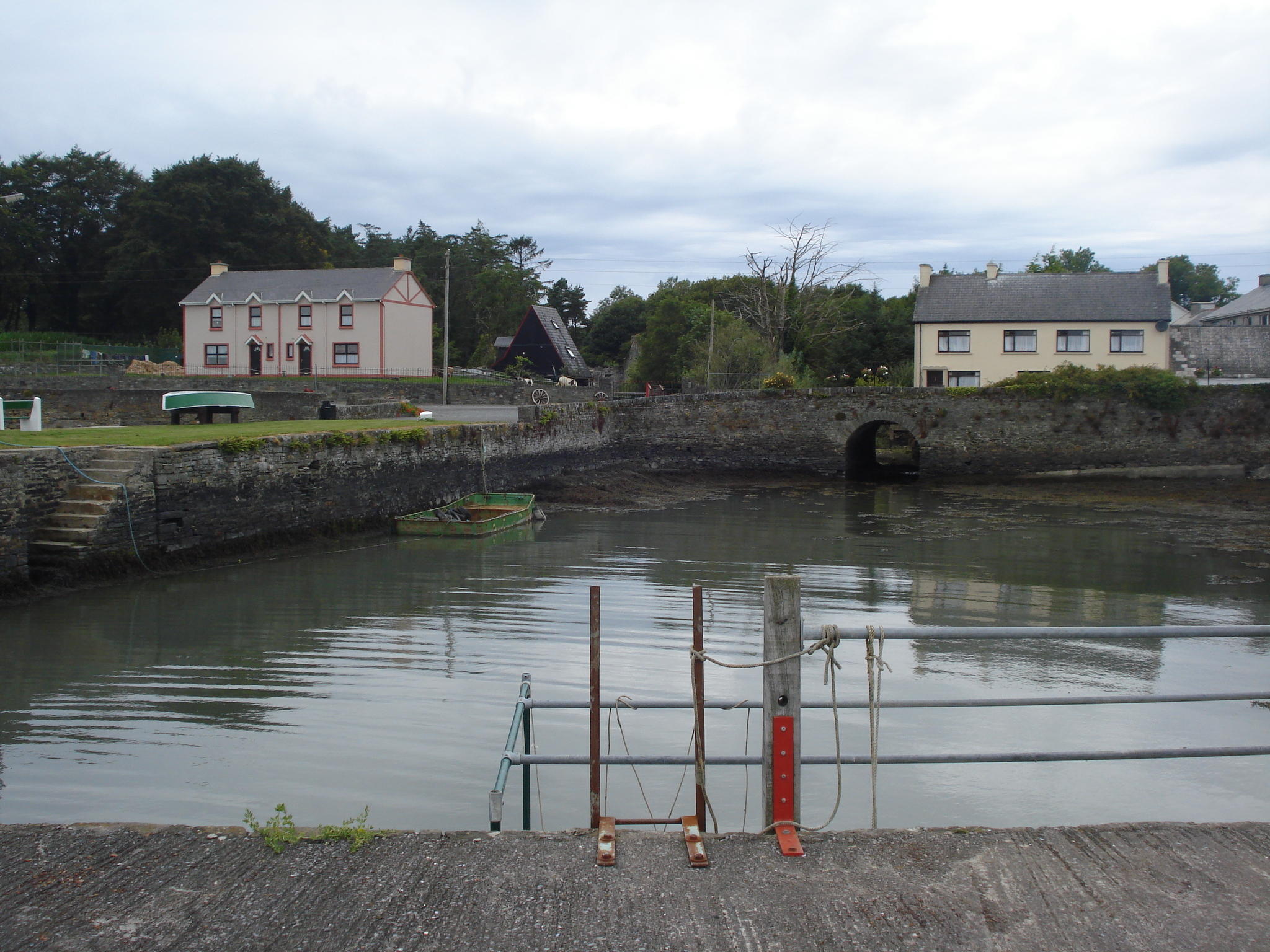 The little harbour of Knock, County Clare